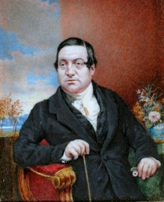 Miniature portrait of the English racehorse trainer John Scott (1792-1871). From Bowes Museum. Unknown artist. circa 1840.